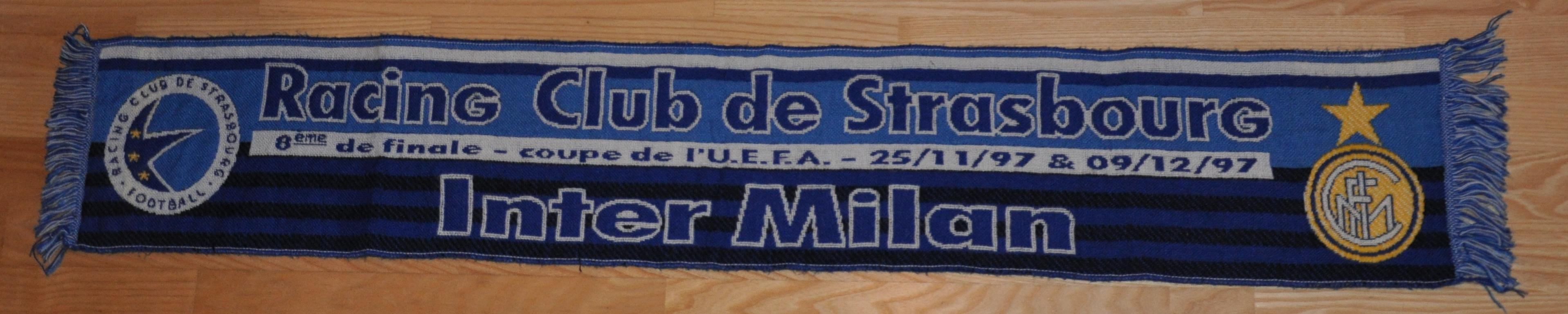 Souvenir scarf commemorating the 1997–98 UEFA CupDate 6.11.2011Source Self-photographedAuthor --44Charles (d) 6 novembre 2011 à 17:13 (CET) Catégorie:Racing Club de Strasbourg